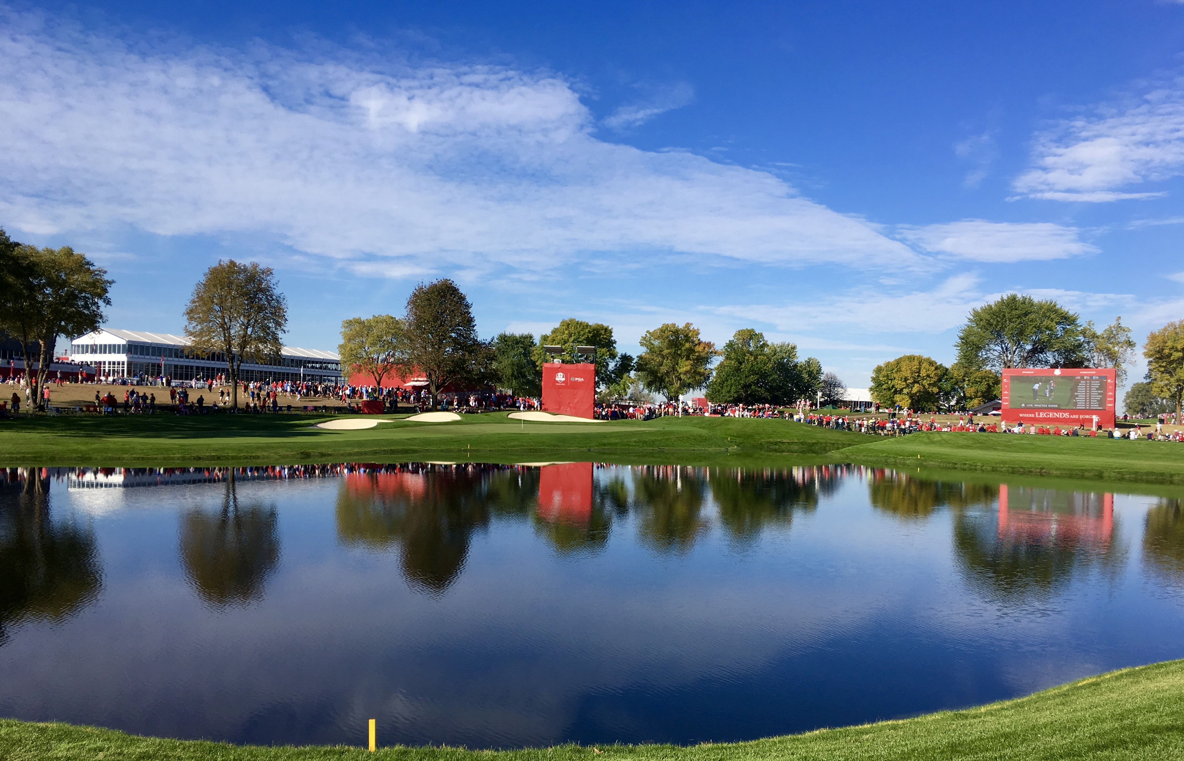 Hazeltine National Golf Club in Chaska, Minnesota during the 2016 Ryder Cup